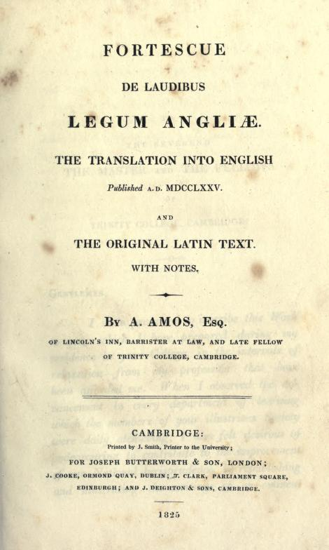 Title page of John Fortescue (1825) Andrew Amos , ed. De Laudibus Legum Angliæ: The Translation into English Published A.D. MDCCLXXV. And the Original Latin Text. With Notes [Commendation of the Laws of England], Cambridge: Printed by J. Smith, Printer to the University, for Joseph Butterworth & Son [et al.] OCLC: 60724441.